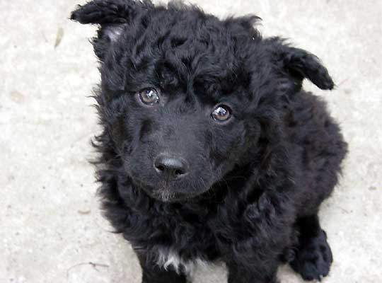 croatian sheepdog Mawlch Gera - 7 weeks old